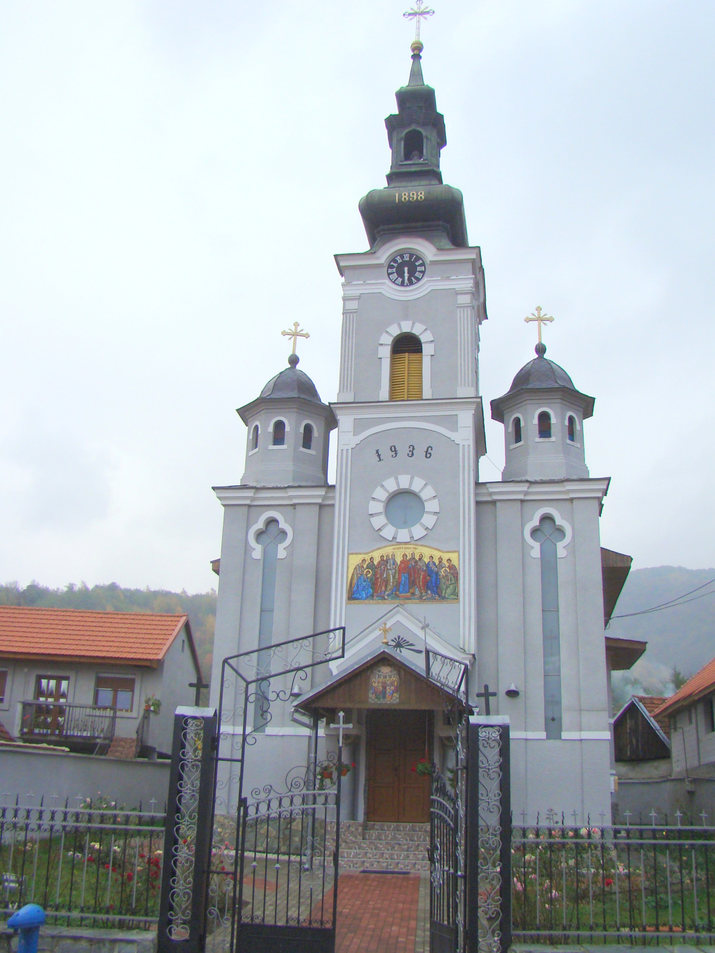 Church of the Pentecost in Măru, Caraș-Severin county, Romania